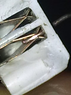 It is a part of a broken breadboard which allows insight into its construction. It has a wire inserted into it to show how it lodges between the curved metal to ensure a proper electrical connection.